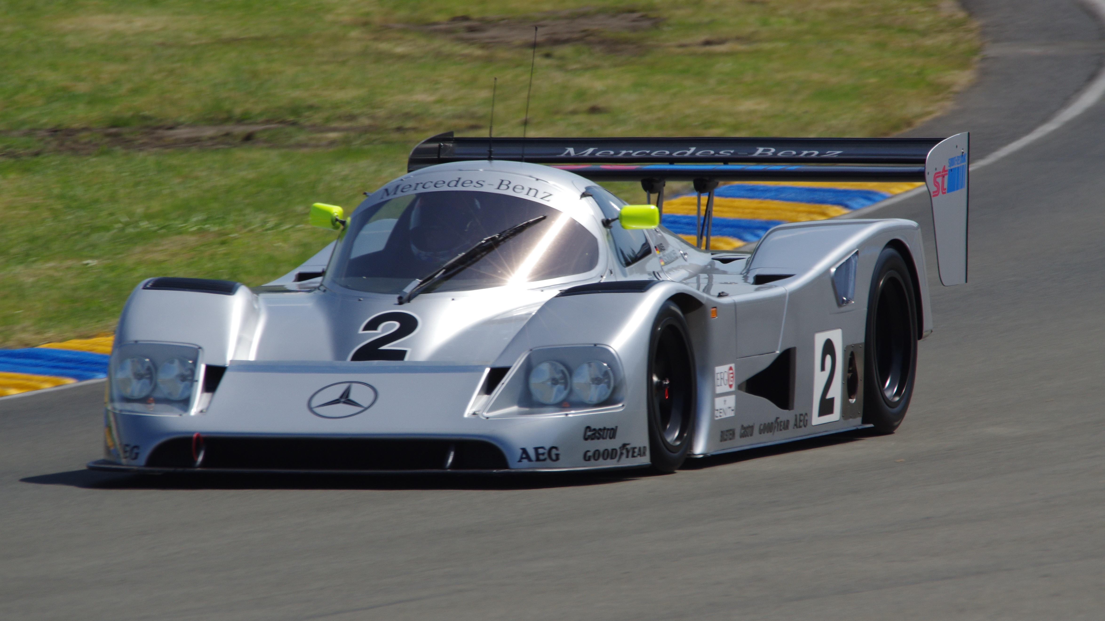 Le Mans 2014 - Group C Racing - #2 Mercedes C11 (1990)